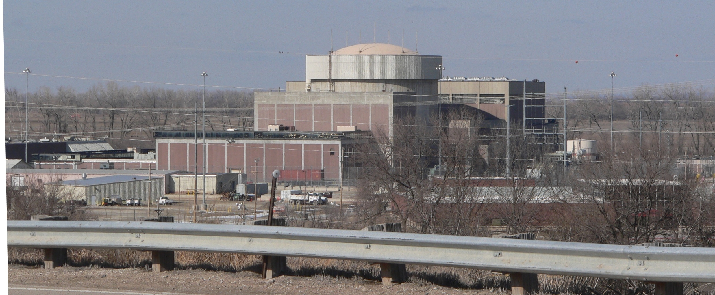 Fort Calhoun power plant, located between U.S. Highway 75 and the Missouri River, between Blair and Fort Calhoun, Nebraska. View is from the southwest, from Highway 75.